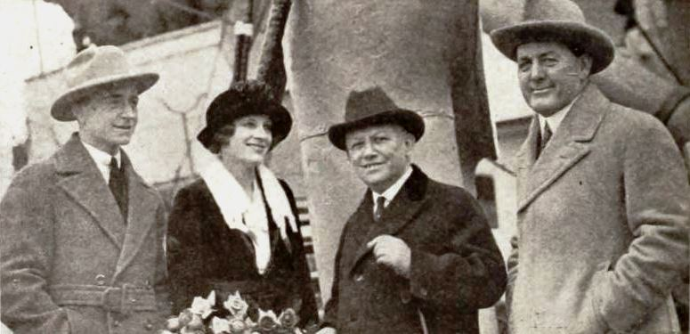 The president of Universal greeting the film crew of the American film serial The Dragon's Net (1920) back from their travel to Hawaii and East Asia, from left: actors Harland Tucker and Marie Walcamp (Mrs. Tucker), president Carl Laemmle, and director Henry MacRae, on page 64 of the May 8, 1920 Exhibitors Herald.